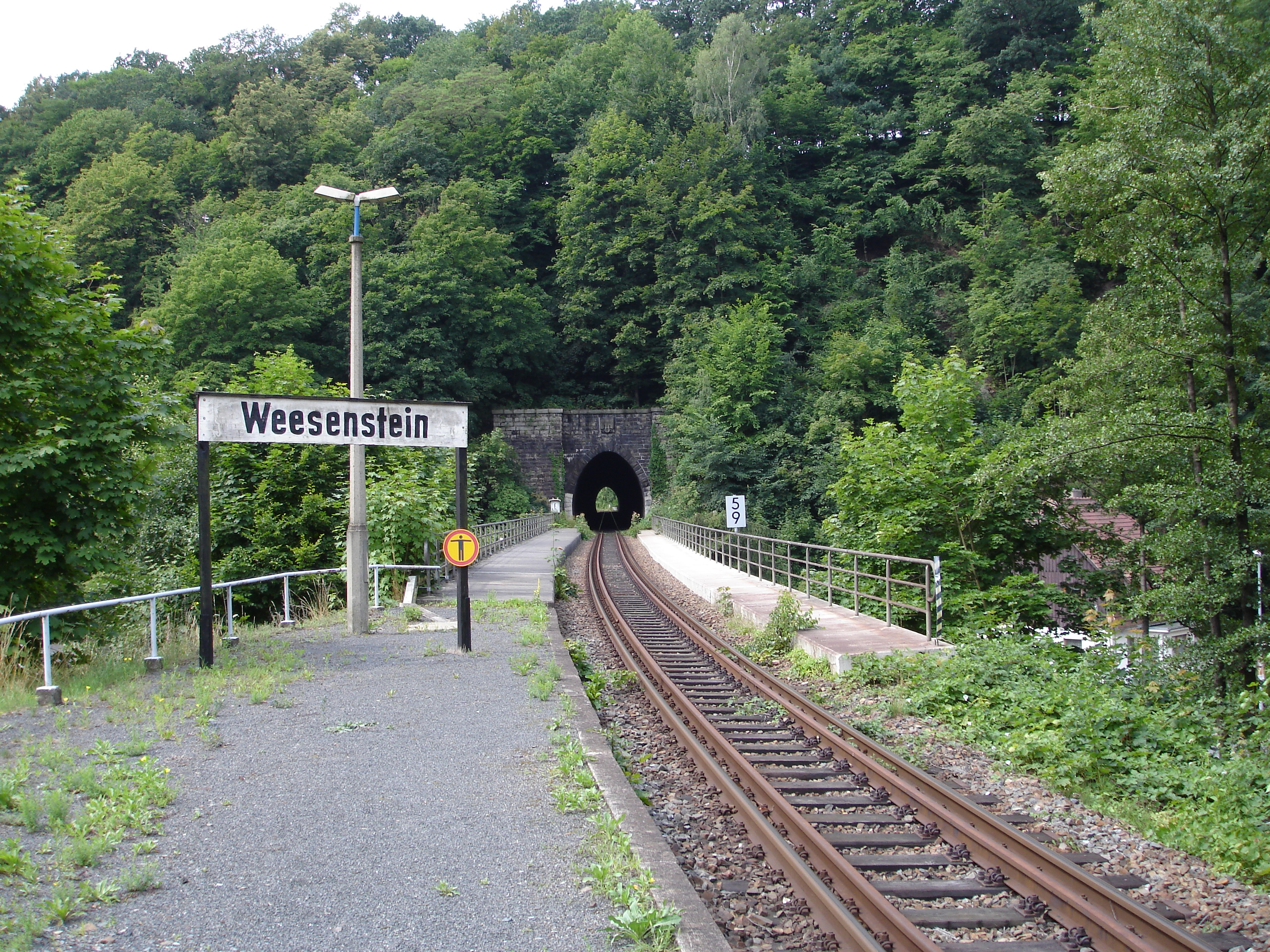 tunnel Weesenstein, Heidenau–Kurort Altenberg railway, Saxony, Germany